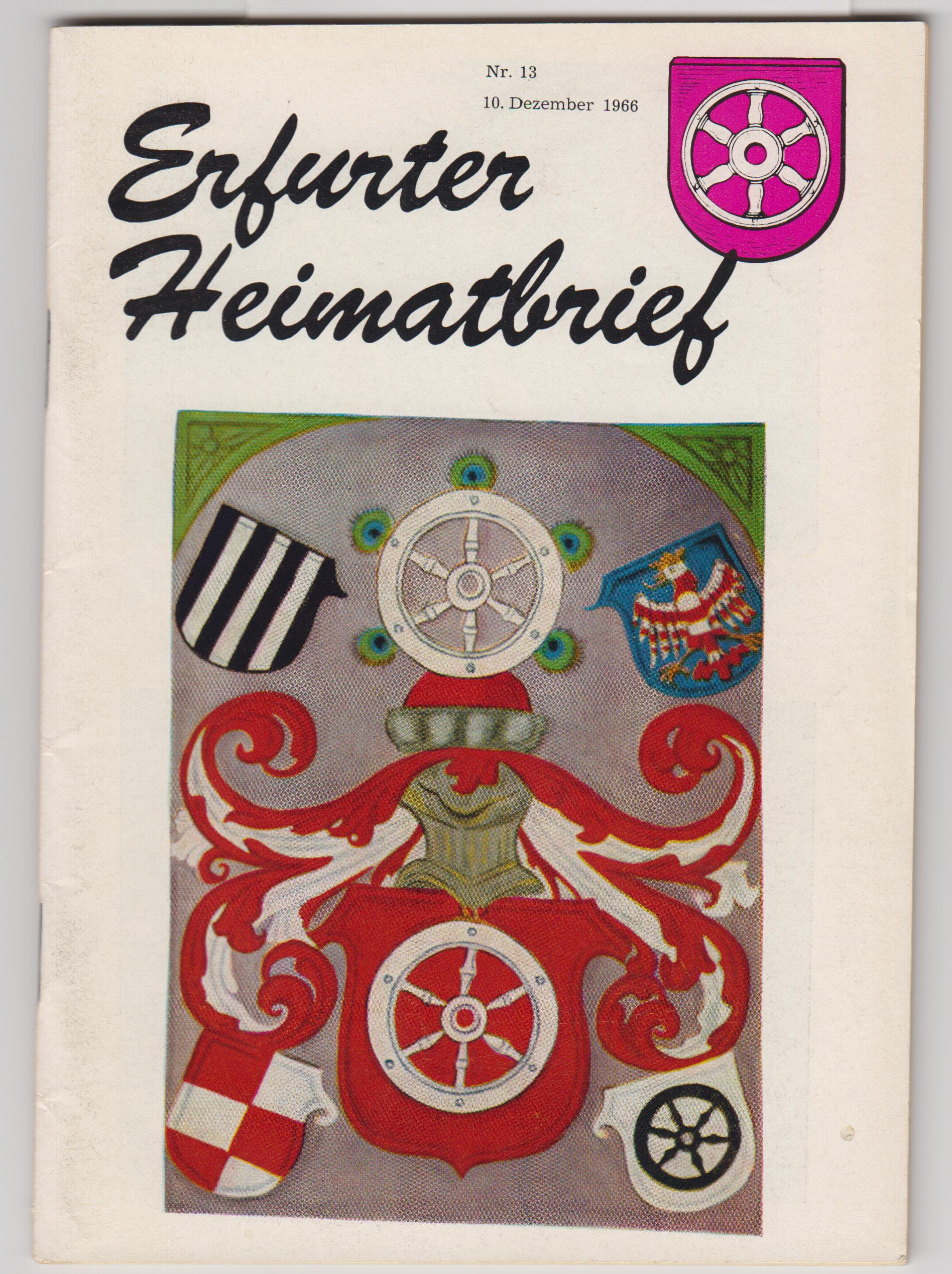 Erfurter Heimatbrief Nr. 13 von 1966